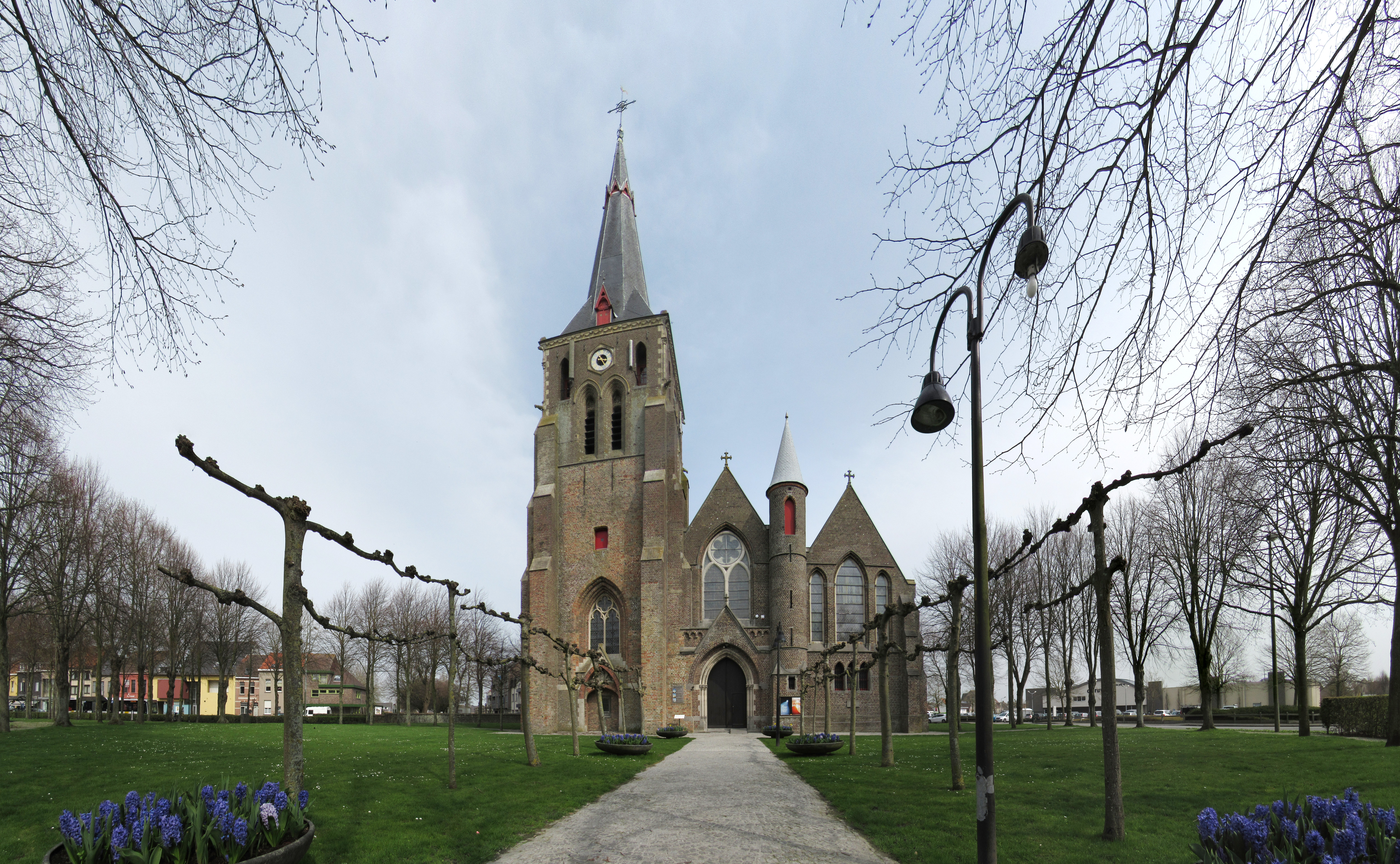 Saint Amand's Church in Uitkerke, Blankenberge, Belgium. Different photos stitched together with Hugin.